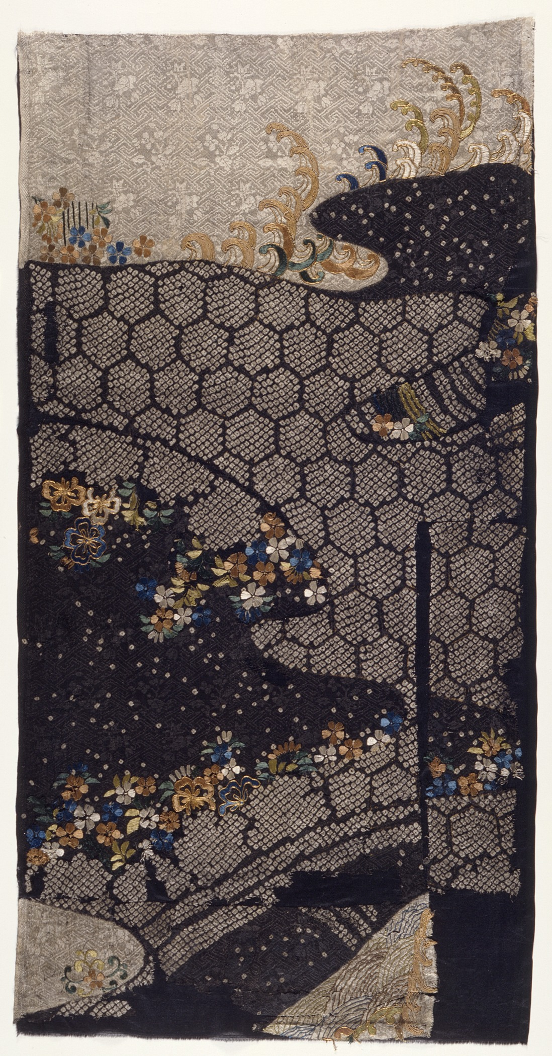 Japan, Edo period (1615-1868), first half of 17th century Costumes; principal attire (entire body) Tie-dyeing (kanoko shibori), silk and metallic thread embroidery, and stenciled gold leaf (surihaku) on white figured silk satin (rinzu) Gift of Miss Bella Mabury (M.39.2.293) Costume and Textiles